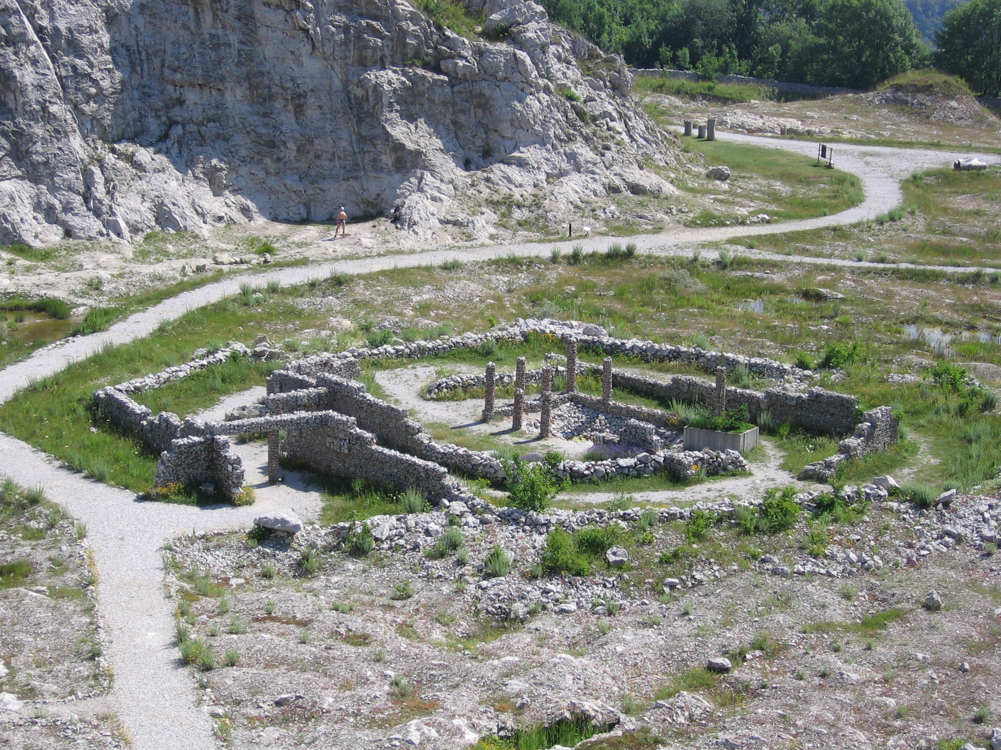 Botanic garden and arboretum in Štramberk, Czech Republic - stone labyrinth